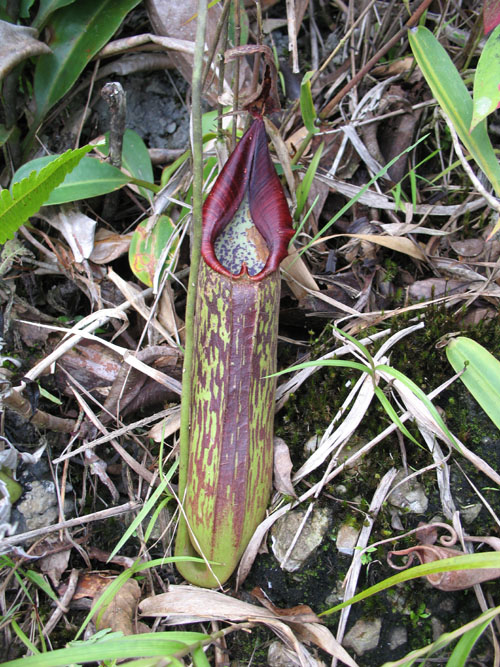 N.fusca (Kinabalu)